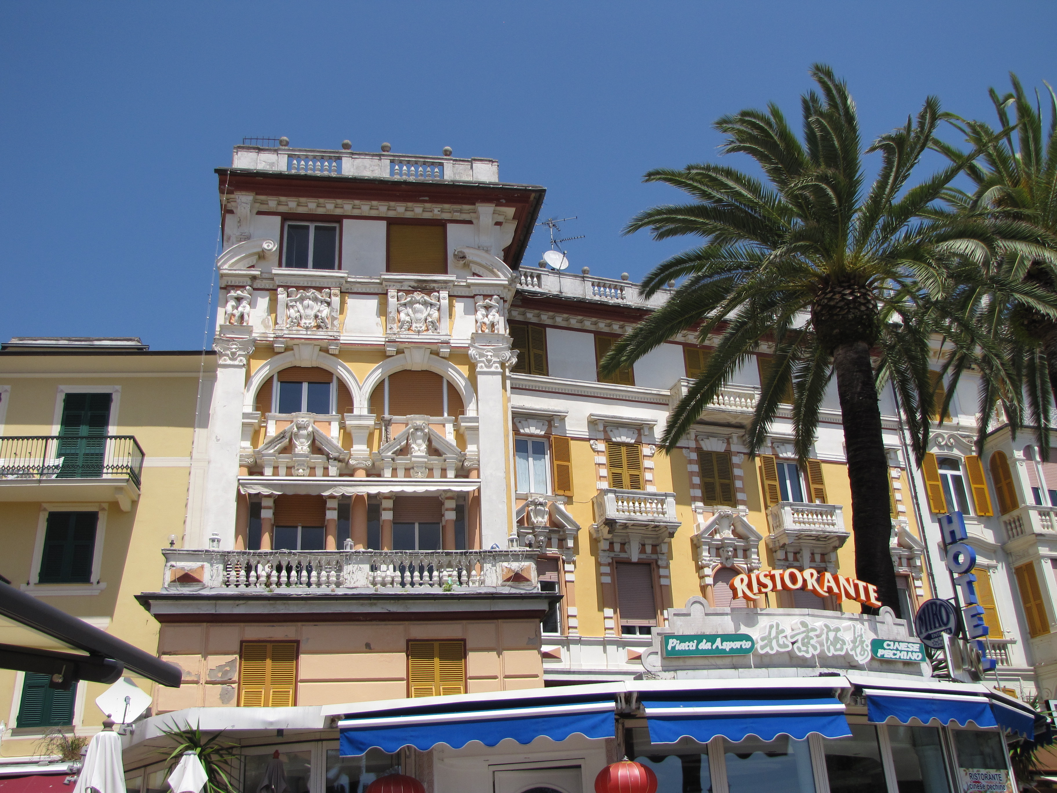 House at Lungomare Vittorio Veneto.